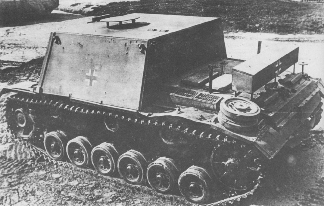 SD.KFZ 138/1 StuIG 33B "Here is an image of a SiG in Stalingrad. This particular one was captured by the Russians, and put on display in the tank museum near Moscow."